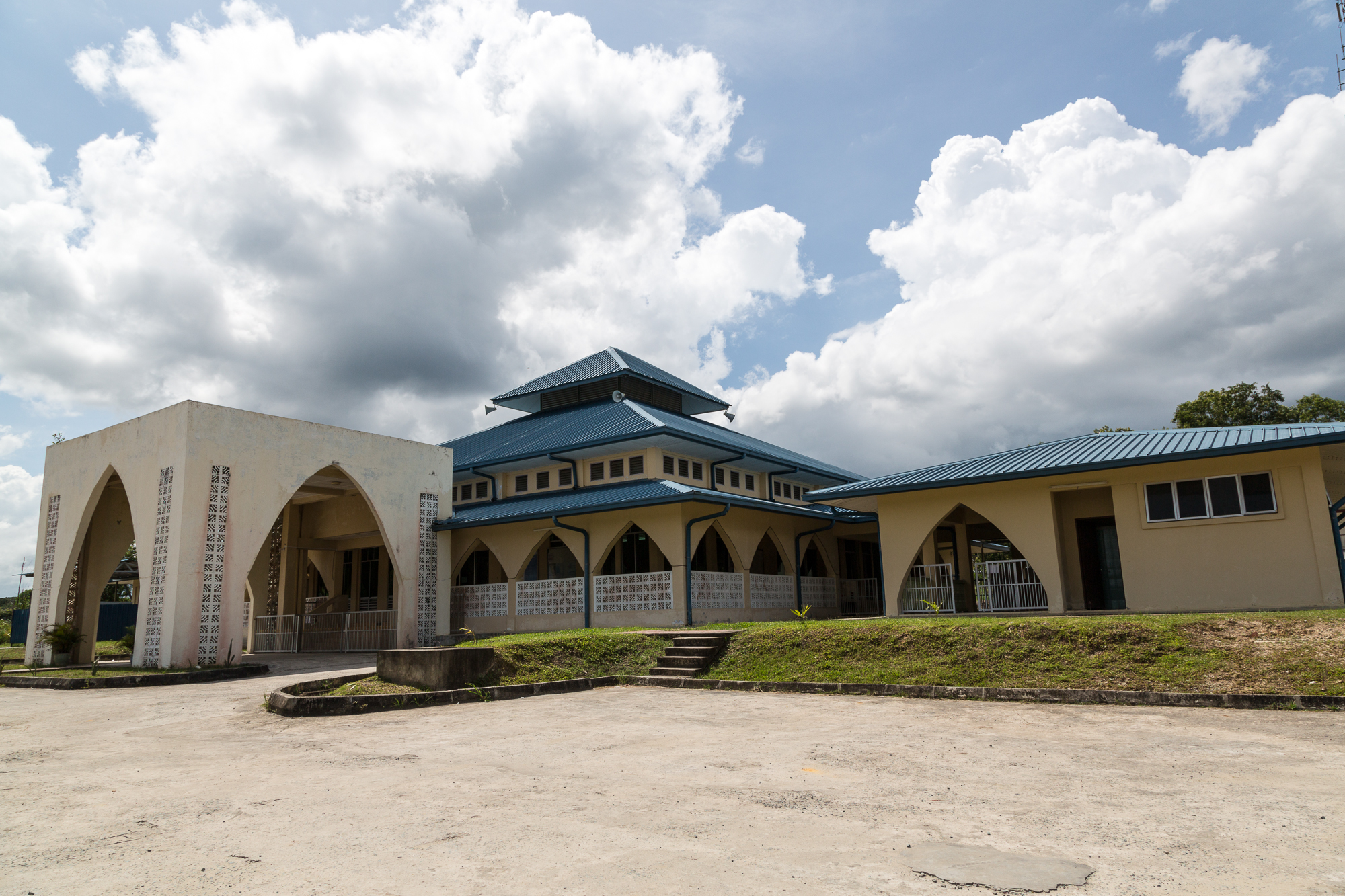 Pitas, Sabah: Masjid Al Amin Daerah Pitas / Al Amin Mosque District Pitas